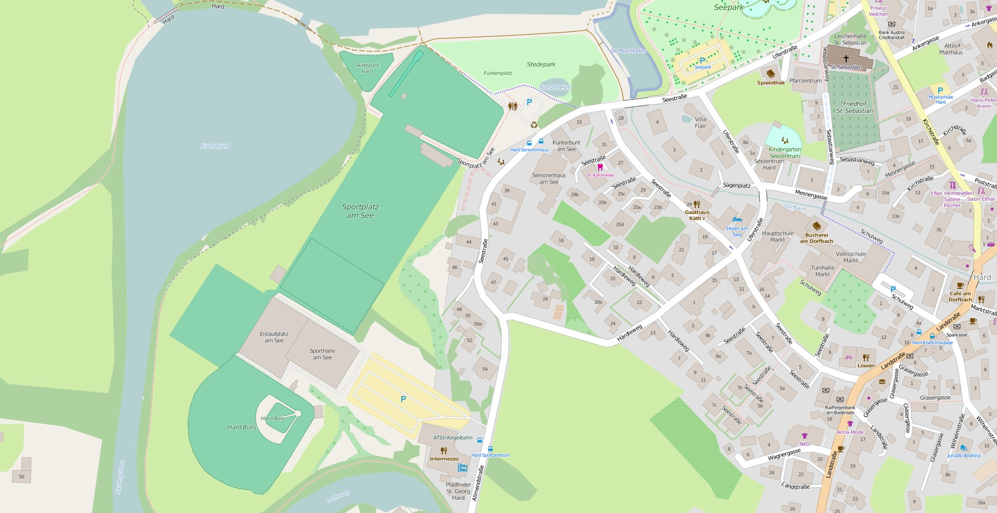 This map may be incomplete, and may contain errors. Don't rely solely on it for navigation.